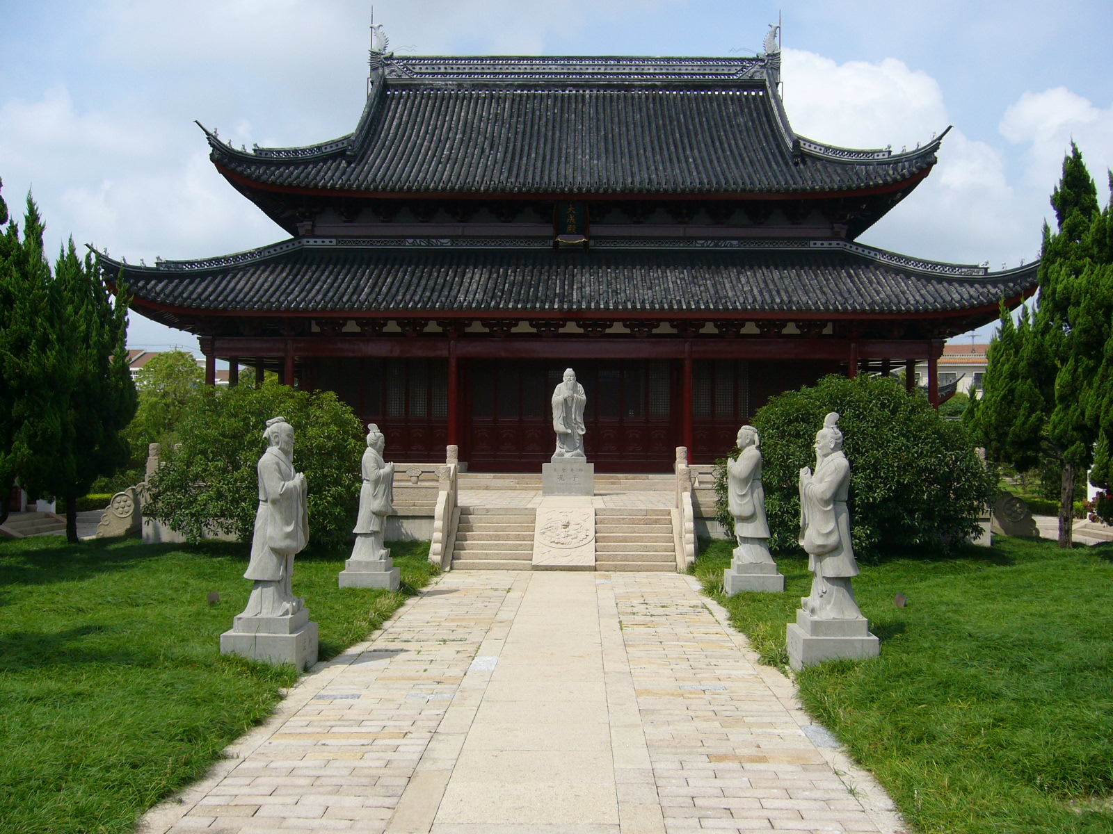 Temple in Chongming Island, Shanghai, China